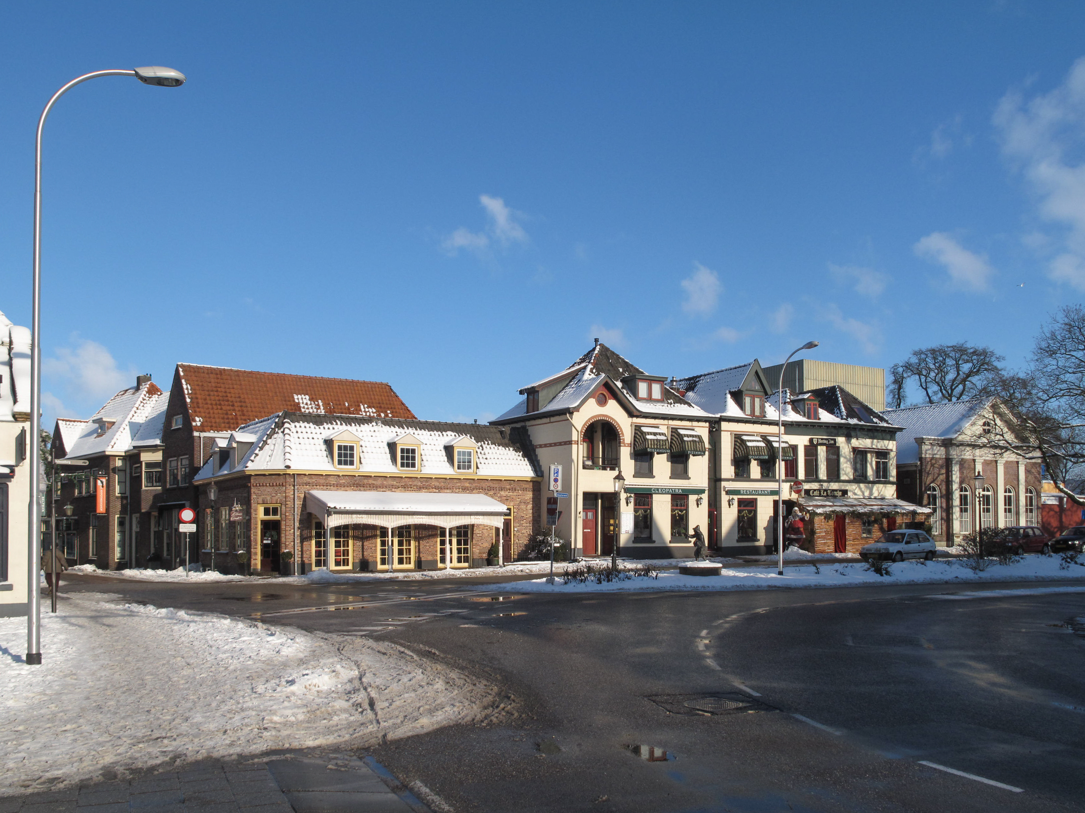 Lochem ,view to a street